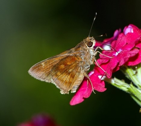 Quinta cannae. Species of insect.